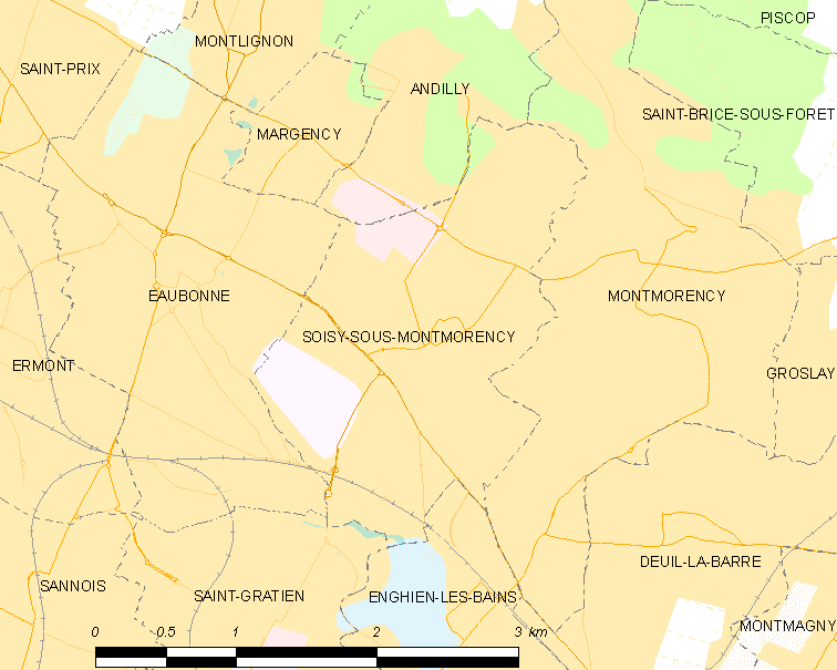 Map of French municipality Soisy-sous-Montmorency